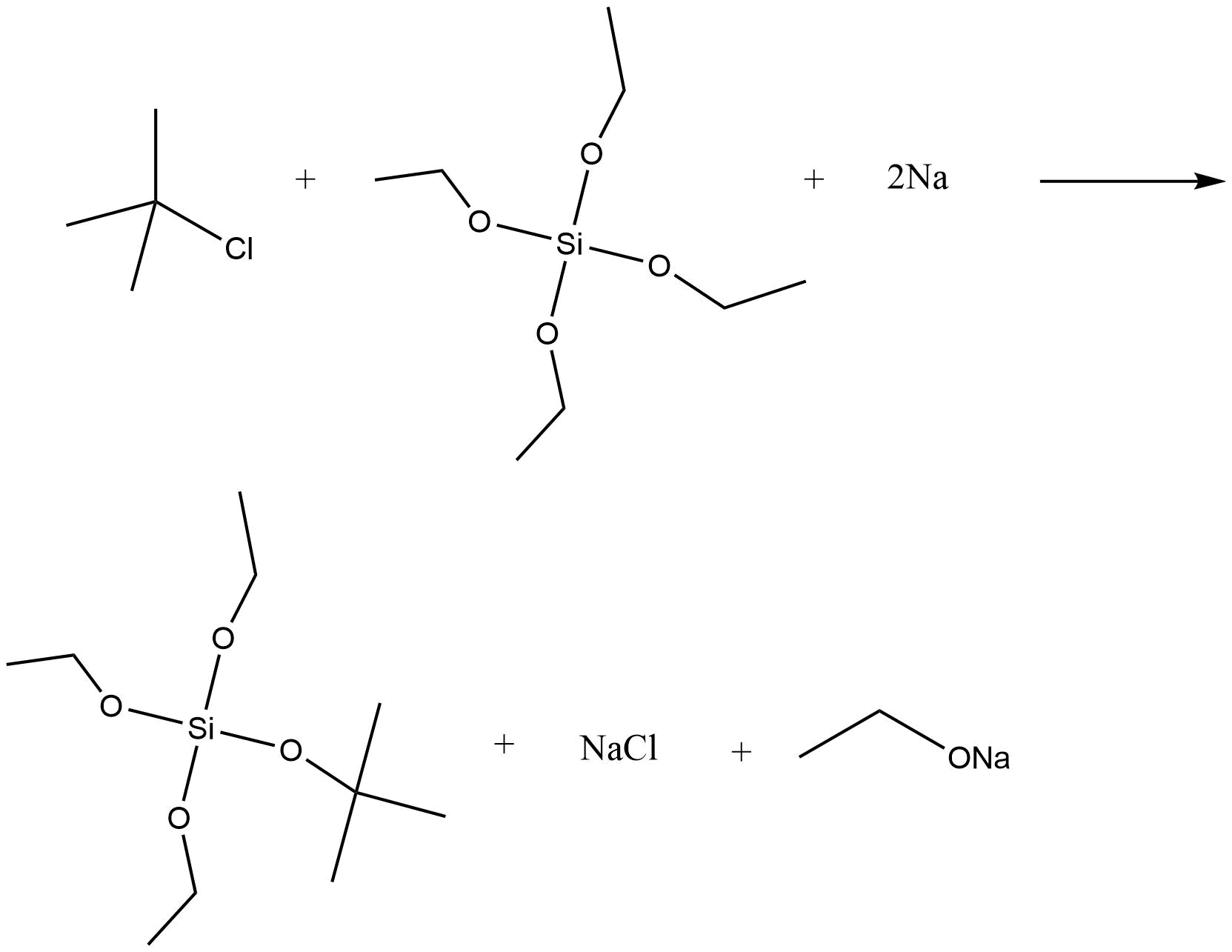 Synthesis of t-Butyltriethoxysilane